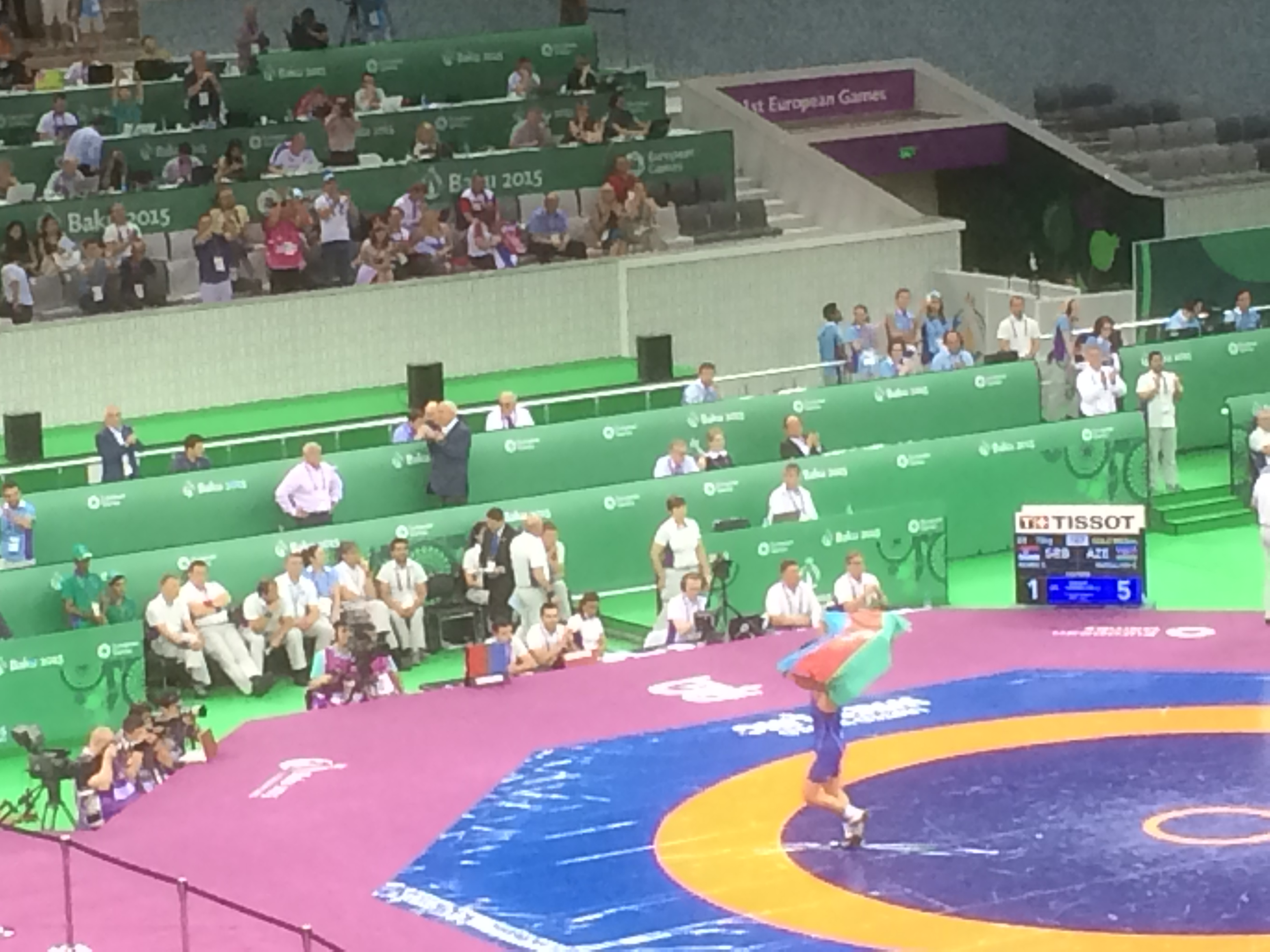 Elvin Mursaliyev, after winning gold medal, Baku 2015 European Games